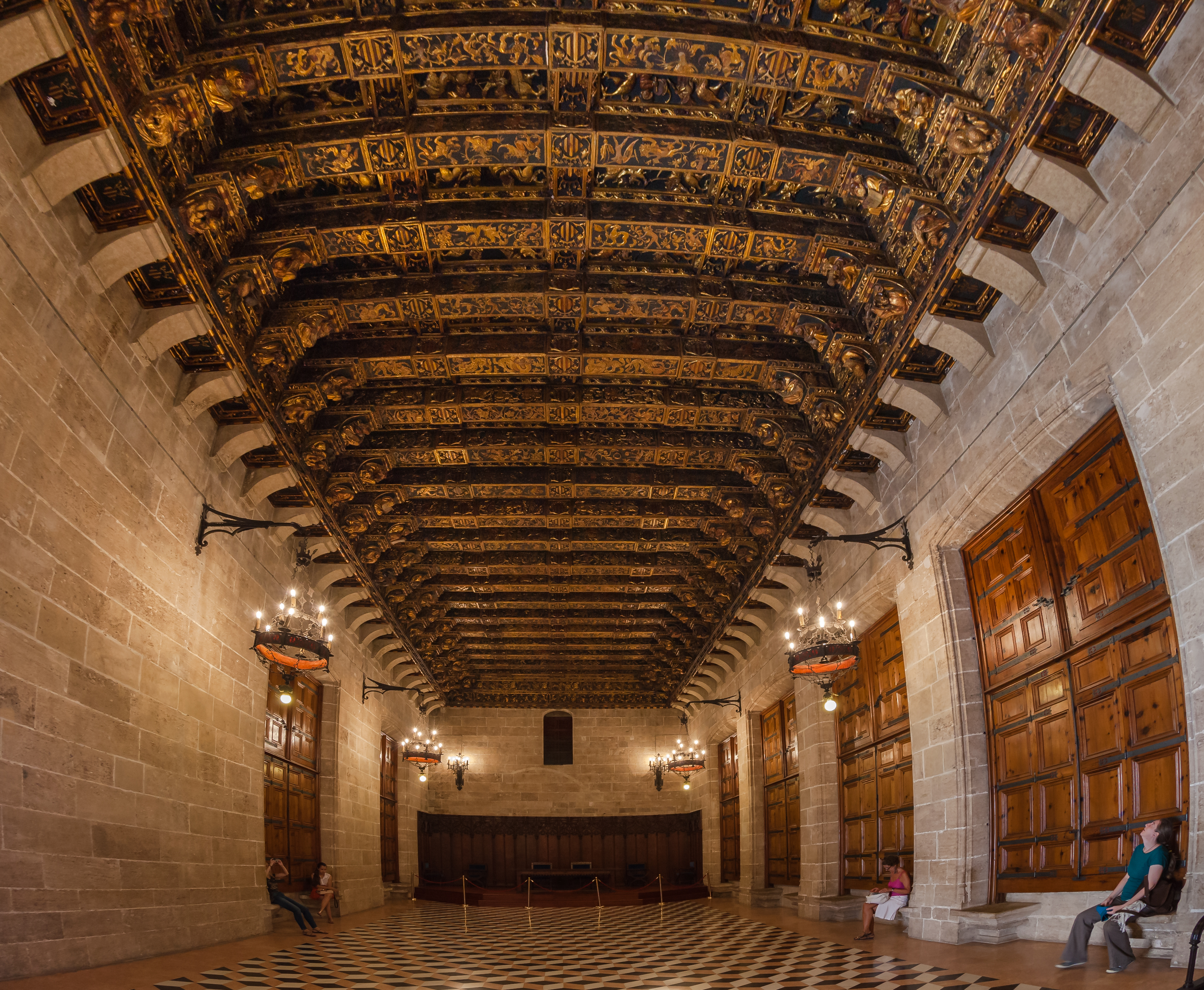 Consulate of the Sea, Silk Market, Valencia, Spain